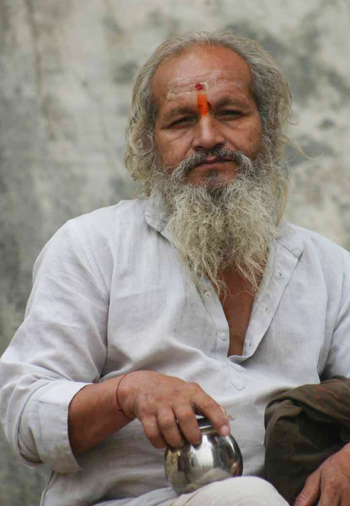 Man in Varanasi with red tilak on his forehead